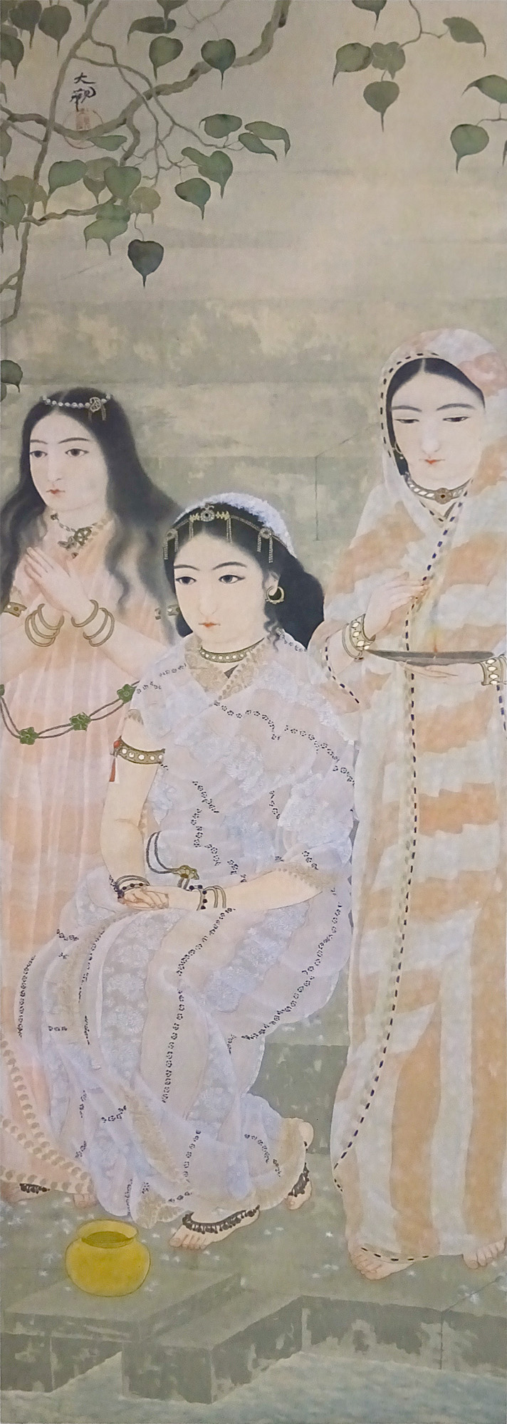 Painting "Flowing laterns" (流燈)